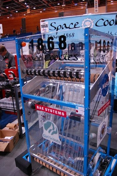 The Space Cookies' 2009 robot "Twoface Titan" placed second in the Silicon Valley FIRST Regional, and the team received the Engineering Inspiration Award. Image Credit: Girl Scouts of Northern California